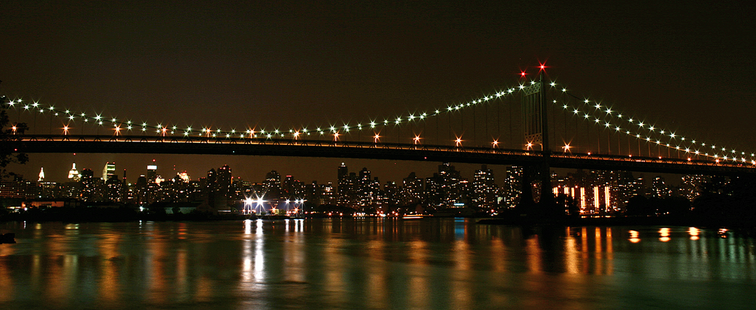 This image was taken on September 20th, 2007 from Astoria Park, Queens. (Photographer: David Torres)